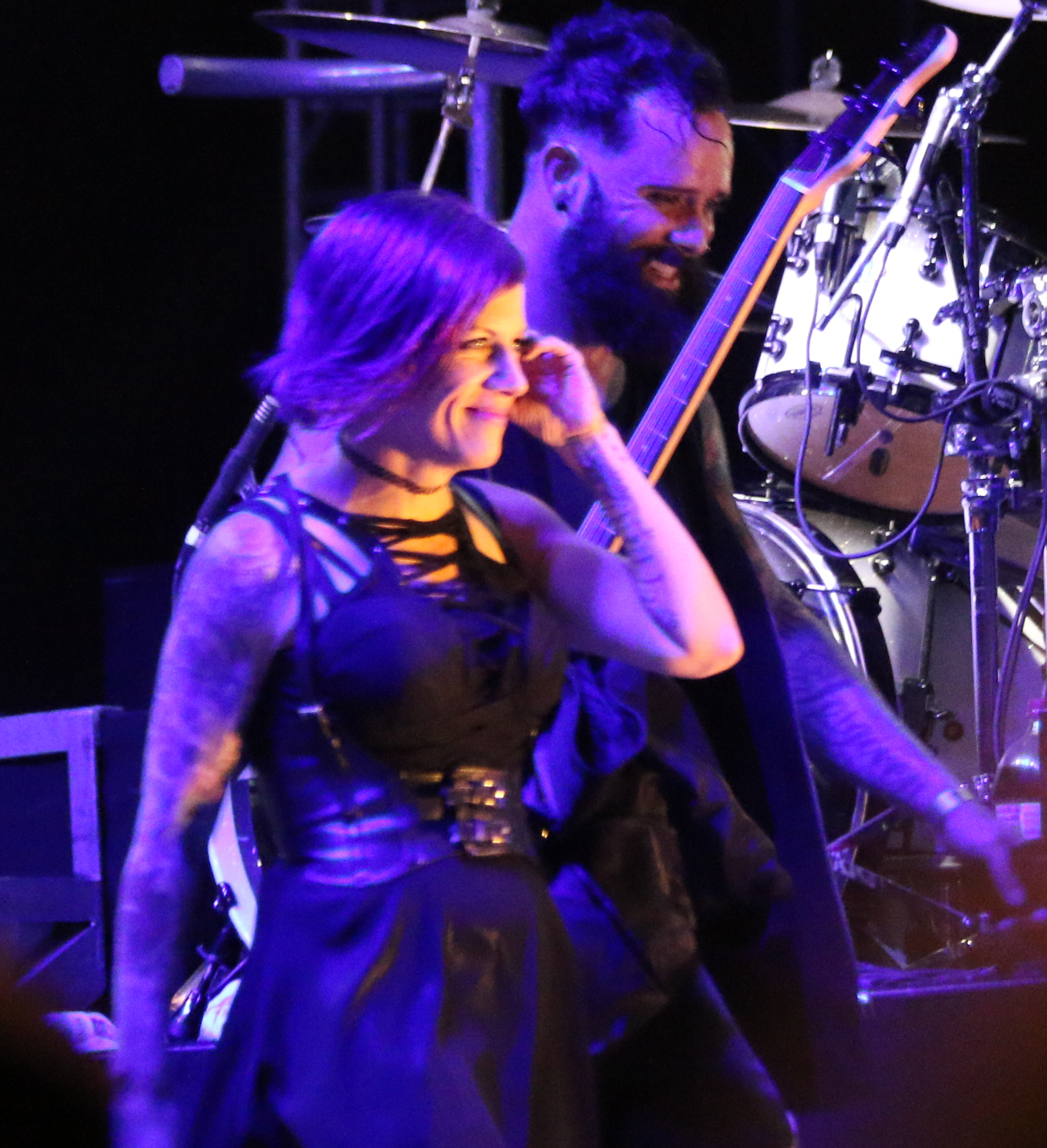 Skillet husband and wife John and Korey Cooper walking off stage together after playing at Lifest 2017